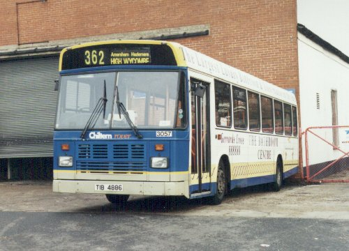 East Lancs Leyland National Greenway rebuild TIB 4886.